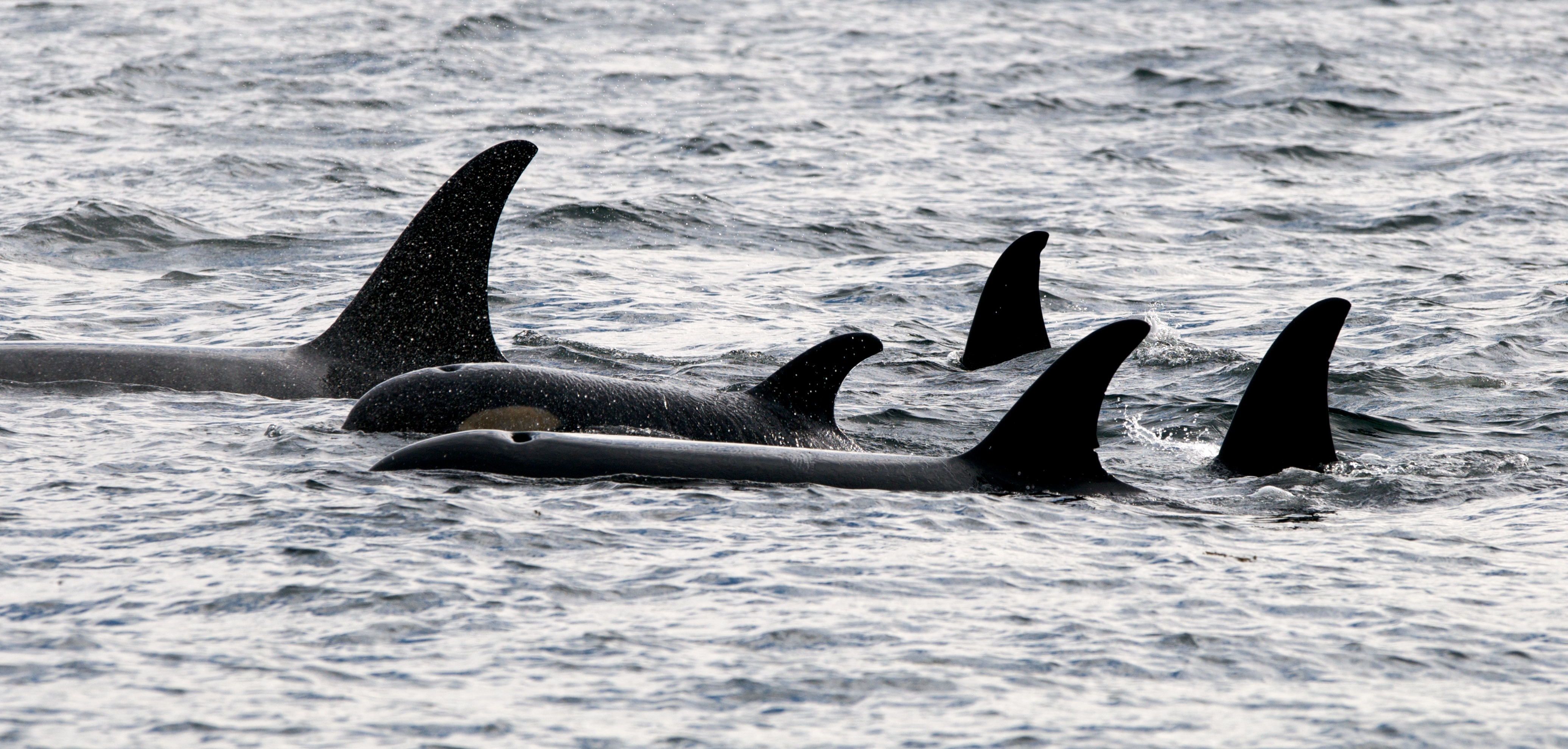 Orcas of various ages in Johnstone Strait, British Columbia